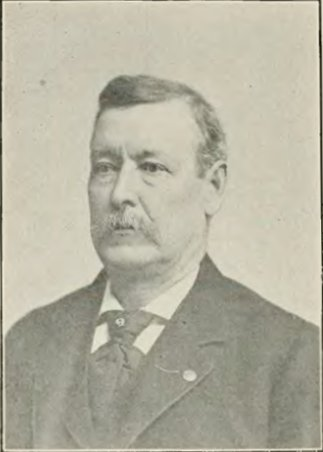 Illustration in History of Iowa From the Earliest Times to the Beginning of the Twentieth Century